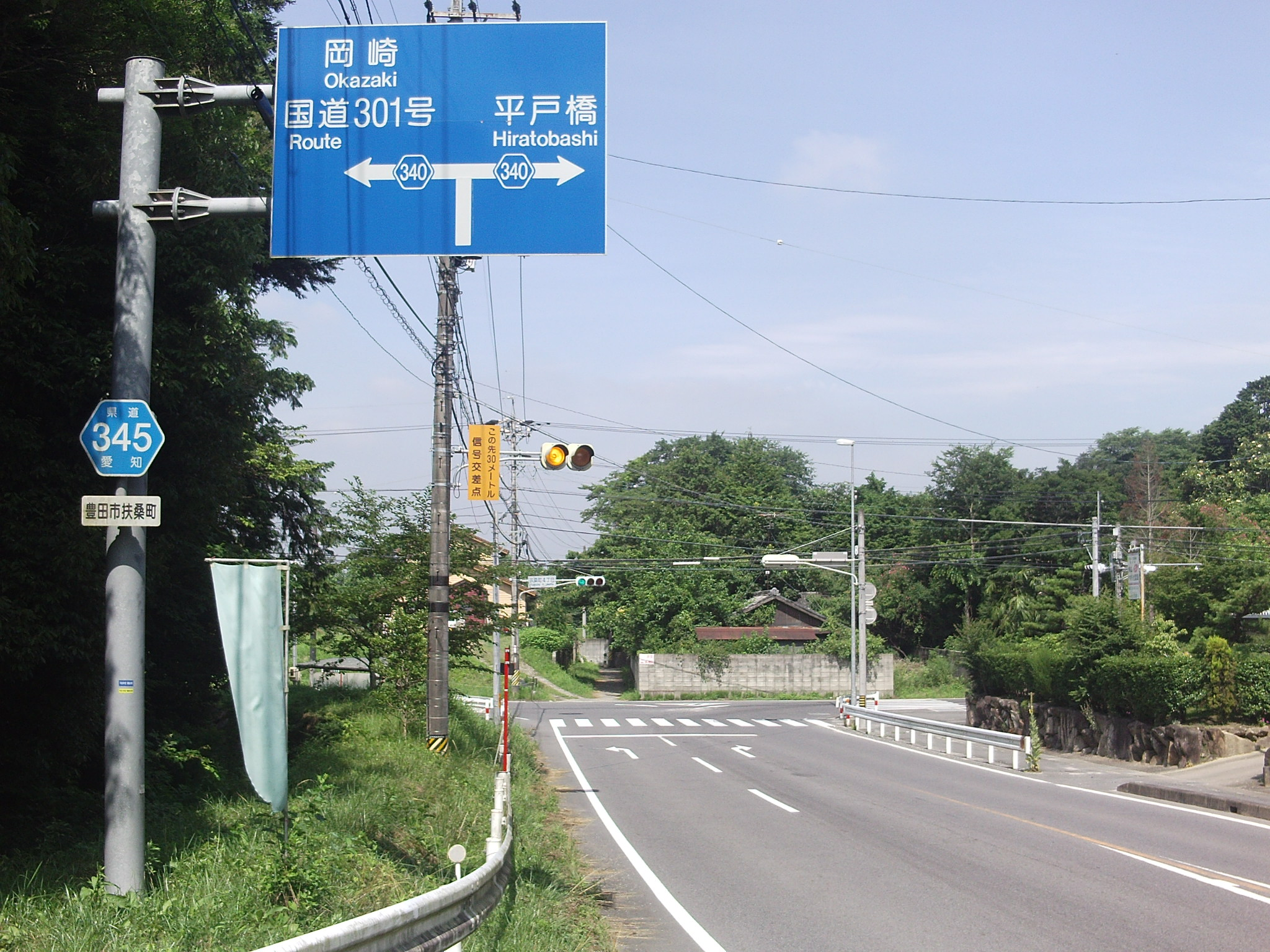 Aichi prefectural road No.345 in Fusocho 4-chome, Toyota, Aichi.